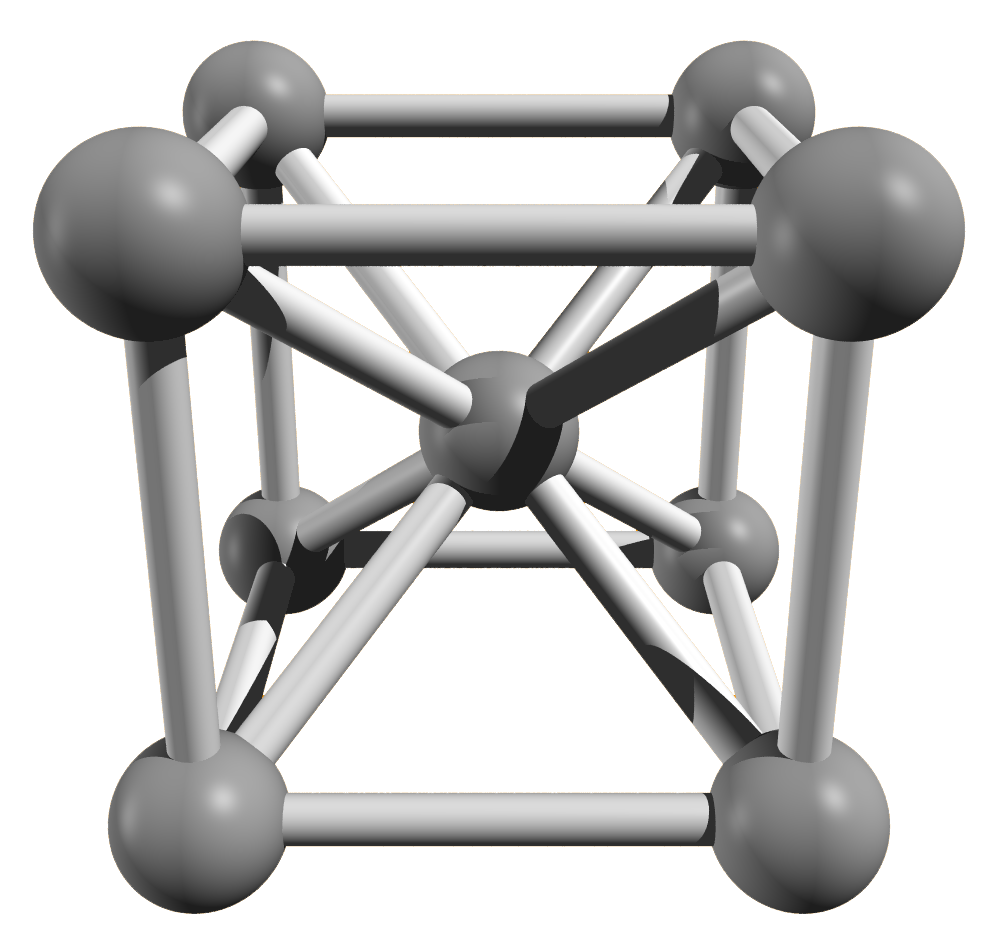 Body-centered cubic (bcc) unit cell of iron